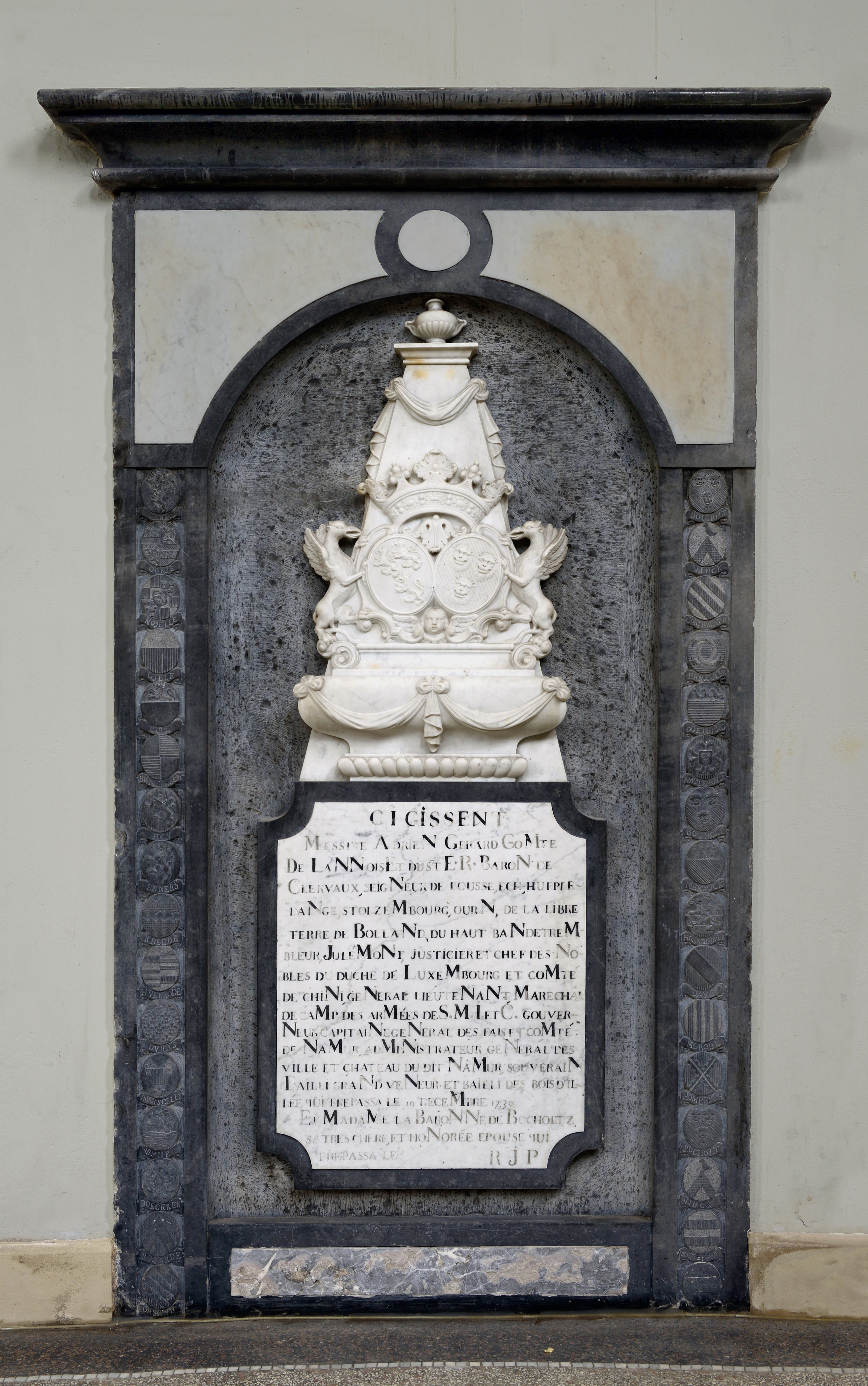 Tombstone of Count Adrien Gérard de Lannois, deceased December 10 1730, and his wife in the Loretto Chapel at Clervaux, Luxembourg.